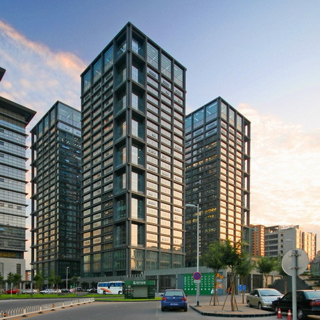 Central of Beijing, itsmo